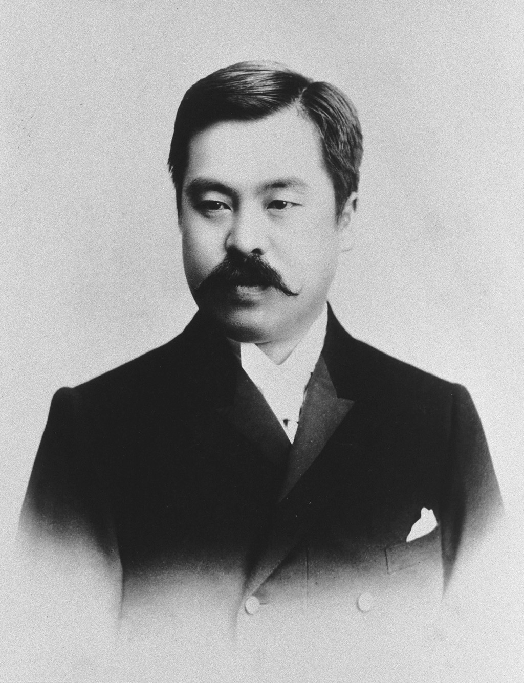 Portrait of Konoe Atsumaro (近衛篤麿, 1863 – 1904)